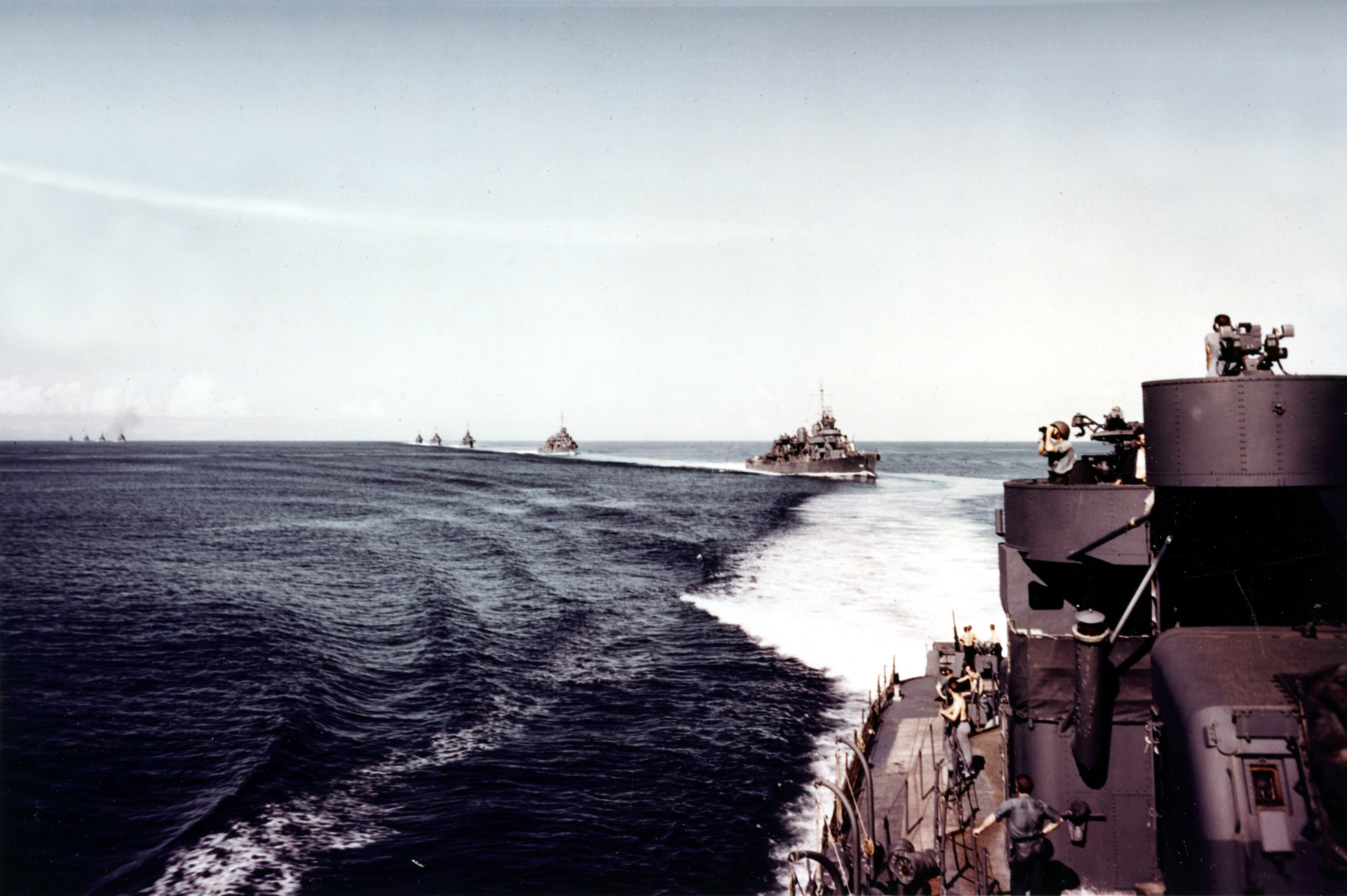 Destroyers of the U.S. Navy Task Force 18 steam in column on 13 May 1943 after bombarding Munda and Vila, as seen from USS Nicholas (DD-449). Note the lookout at work in the gun tub.